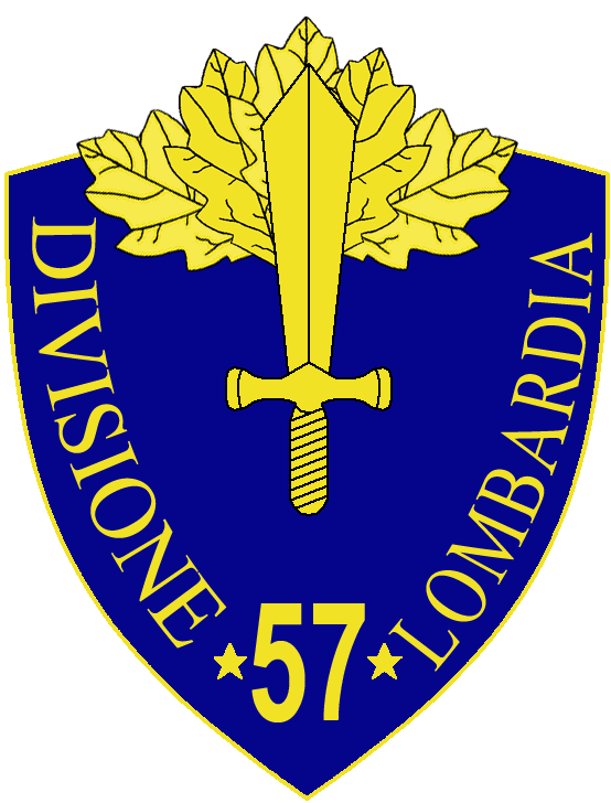 57a Divisione Fanteria Lombardia insignia, Regio Esercito, Italy, WWII